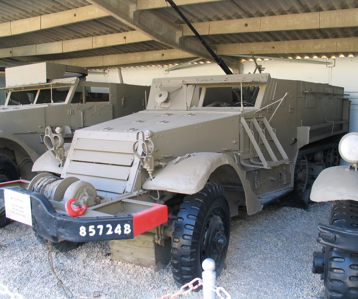 Description: M3 halftrack armed with a 20 mm anti-aircraft cannon in Batey ha-Osef Museum, Tel Aviv, Israel. 2005. Source: Photo by me, User:Bukvoed.